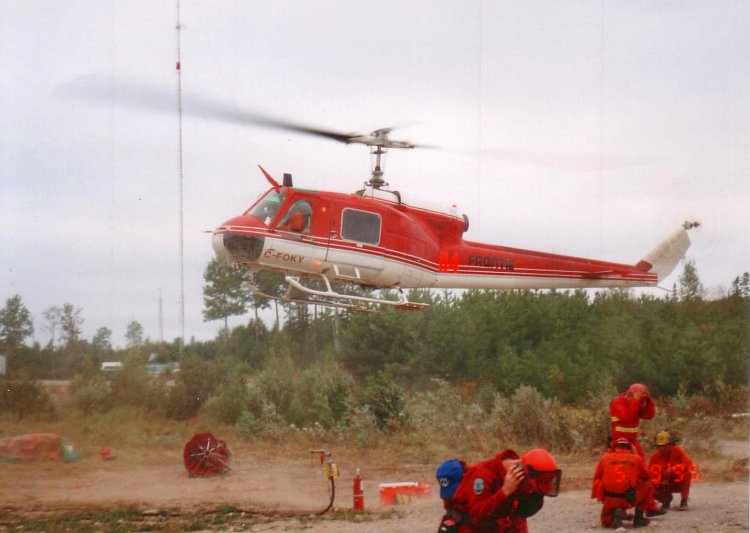 I took this photo of a Bell 204B (upgraded to "C") (C-FOKY) and Ontario Ministry of Natural Resources firefighters working on Fire 141 in 1995.